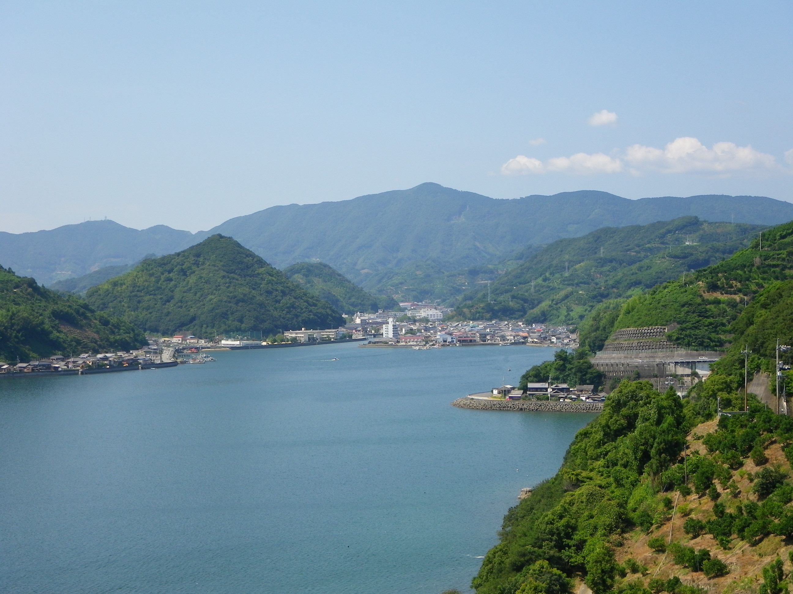 Takamoriyama (Mount Takamori) as seen from the south in the border between Uwajima and Seiyo, Ehime Prefectures, Japan.